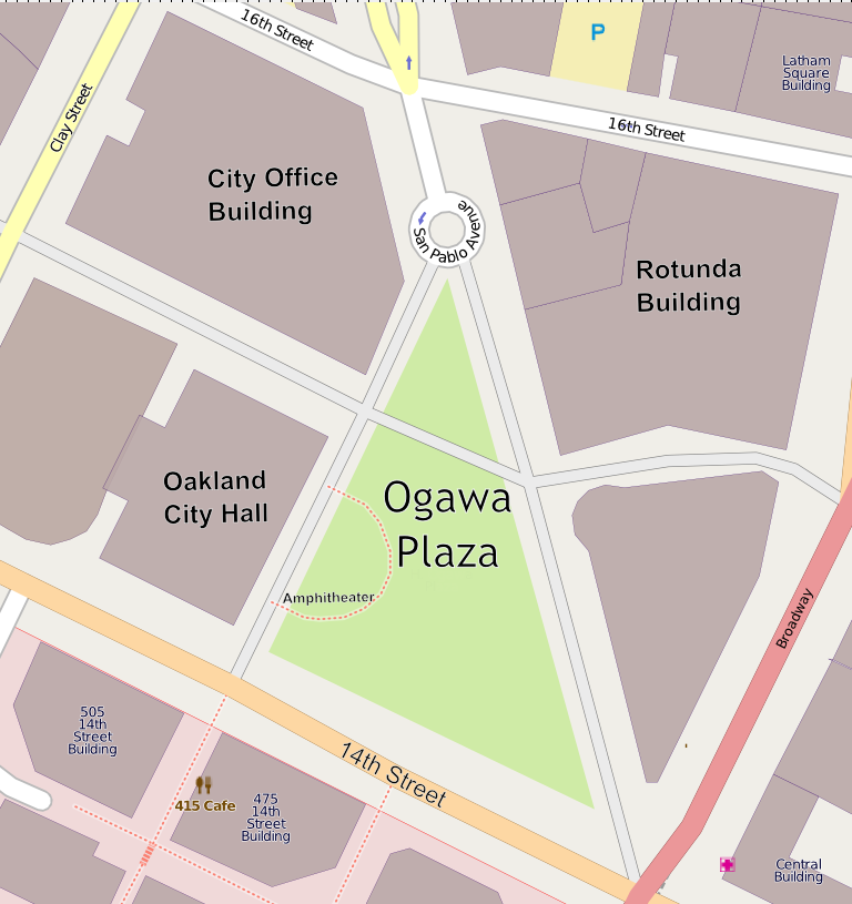 Compiled with OpenMap data , custom labels added, rendered and rasterized